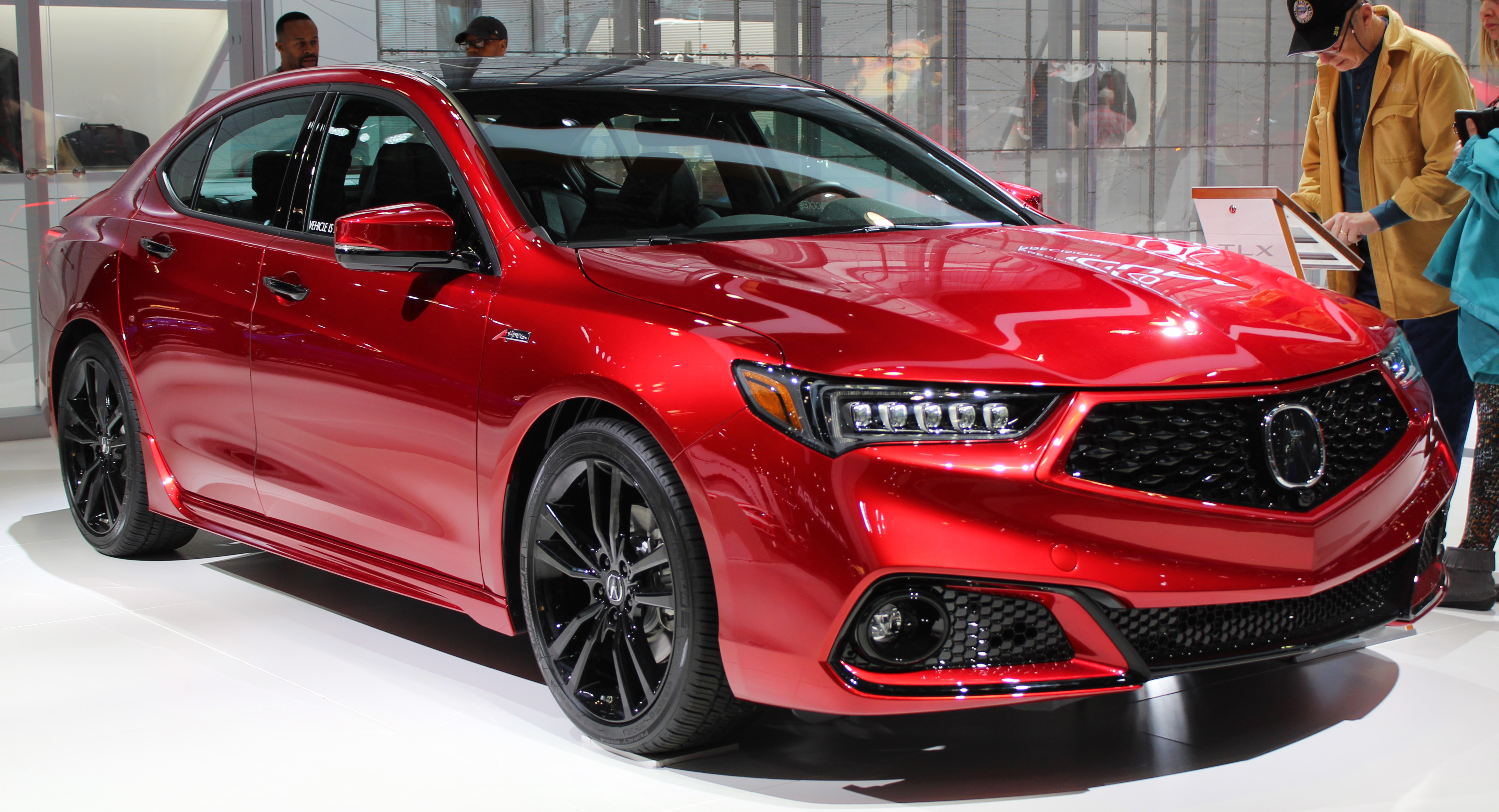 A 2019 Acura TLX A-Spec photographed during the 2019 New York International Auto Show, in Hudson Yards, Manhattan, NYC